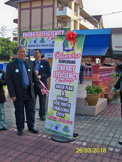 Cekap tenaga 3